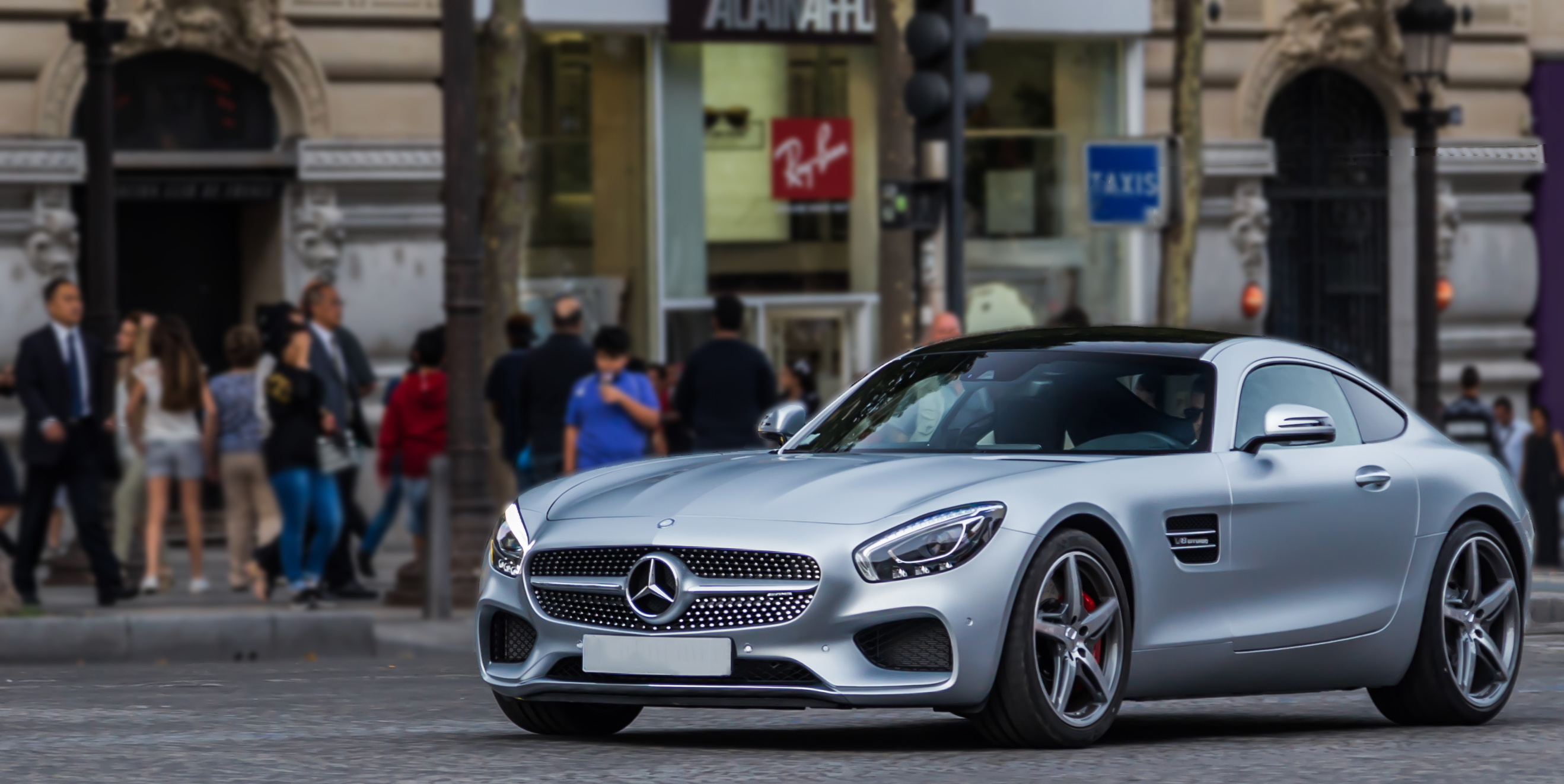 Mercedes Amg GT